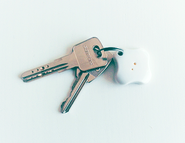 Example of a Key Finder (Lapa)